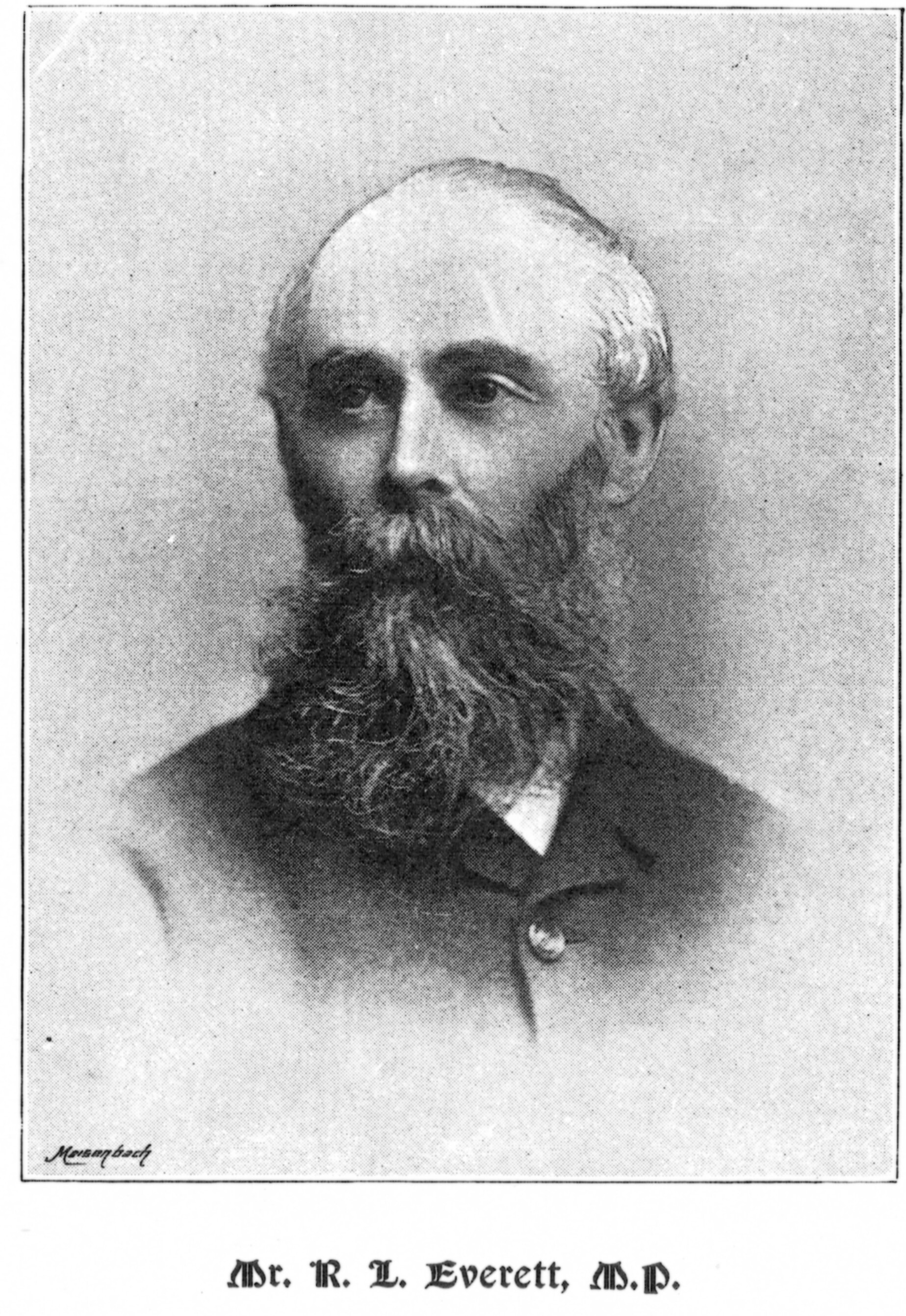 Portrait of Robert Lacey Everett published August 1893 in Suffolk Celebrities